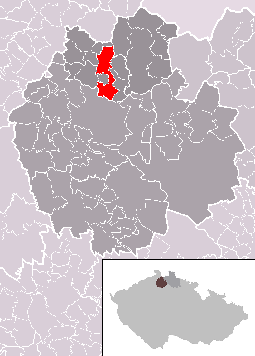 Location of Nový Bor town within Česká Lípa District and administrative area of Nový Bor as a Municipality with Extended Competence.